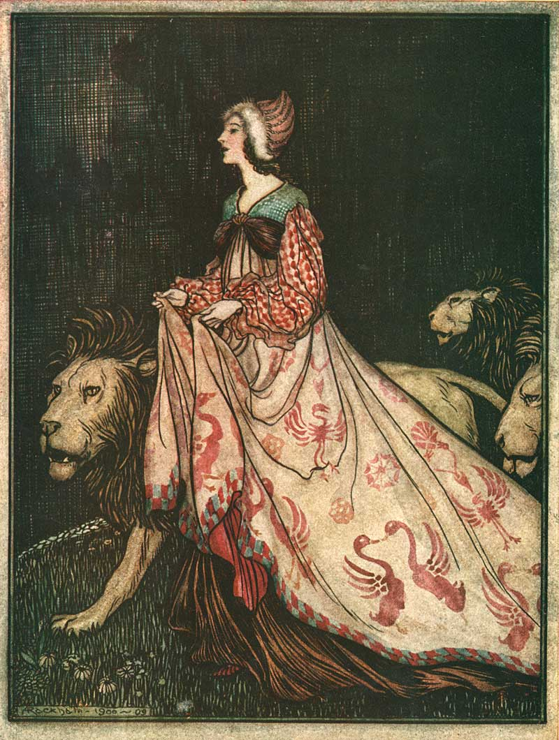 "She went away accompanied by the Lions". From the Grimm fairy tale "The Singing, Springing Lark" (also known as "The Lady and the Lion"), from Grimm's Fairy Tales - Illustrated by Arthur Rackham (1909), later re-published as Snowdrop and Other Tales by the Brothers Grimm (1920)